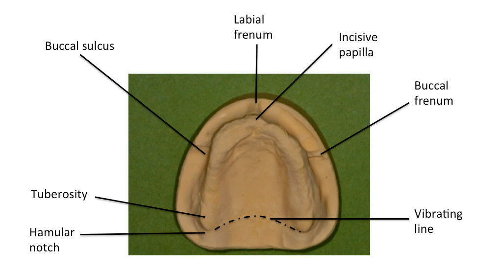 Anatomy of the denture-bearing tissues of maxillary cast